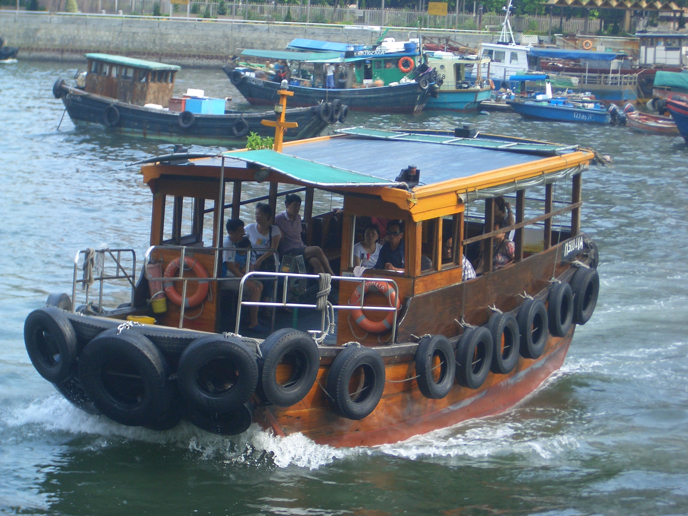 New generation ferry running between Aberdeen and Ap Lei Chau 中文（香港）: 來往香港仔與鴨脷洲的新一代渡輪 粵語: 來往香港仔同鴨脷洲嘅新一代渡輪